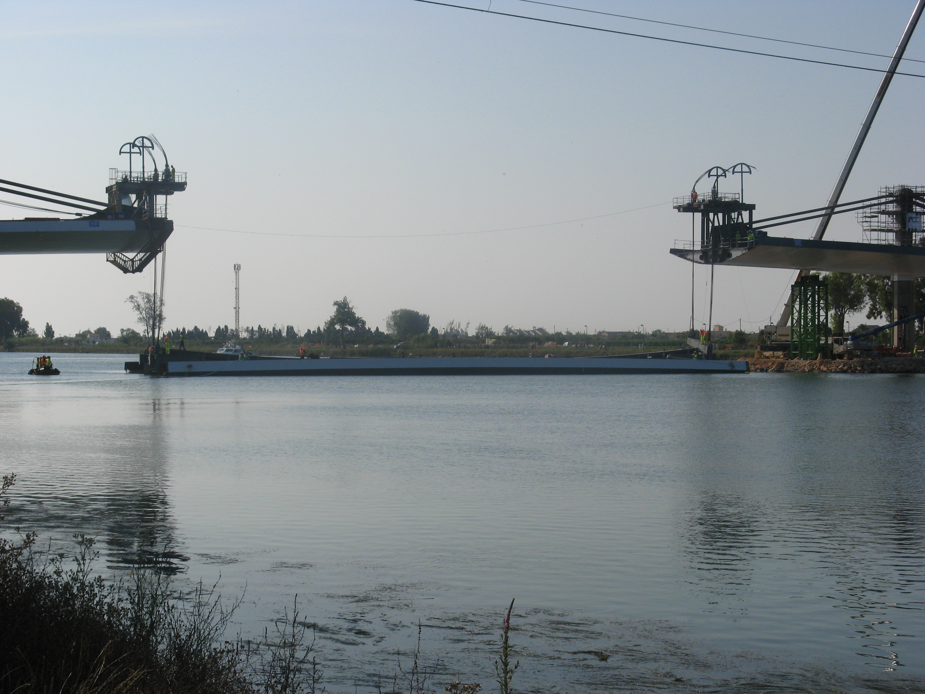 Bridge under construction. Lo Passador in Deltebre (Catalonia)